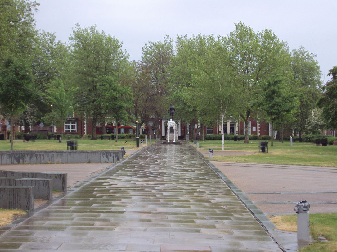 Palmyra Square in the Cultural Quarter, Warrington, Lancshire